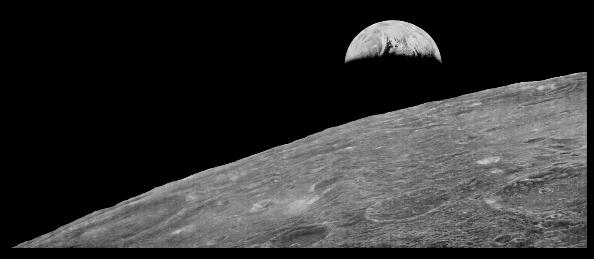 This restored old image of Earth was released by NASA in 2008. The Lunar Orbiter 1 spacecraft took the iconic photograph of Earth rising above the lunar surface in 1966. Using refurbished machinery and modern digital technology, NASA produced the image at a much higher resolution than was possible when it was originally taken.